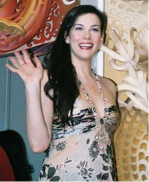 Liv Tyler bei der Herr der Ringe 3-Pressekonferenz in Wellington